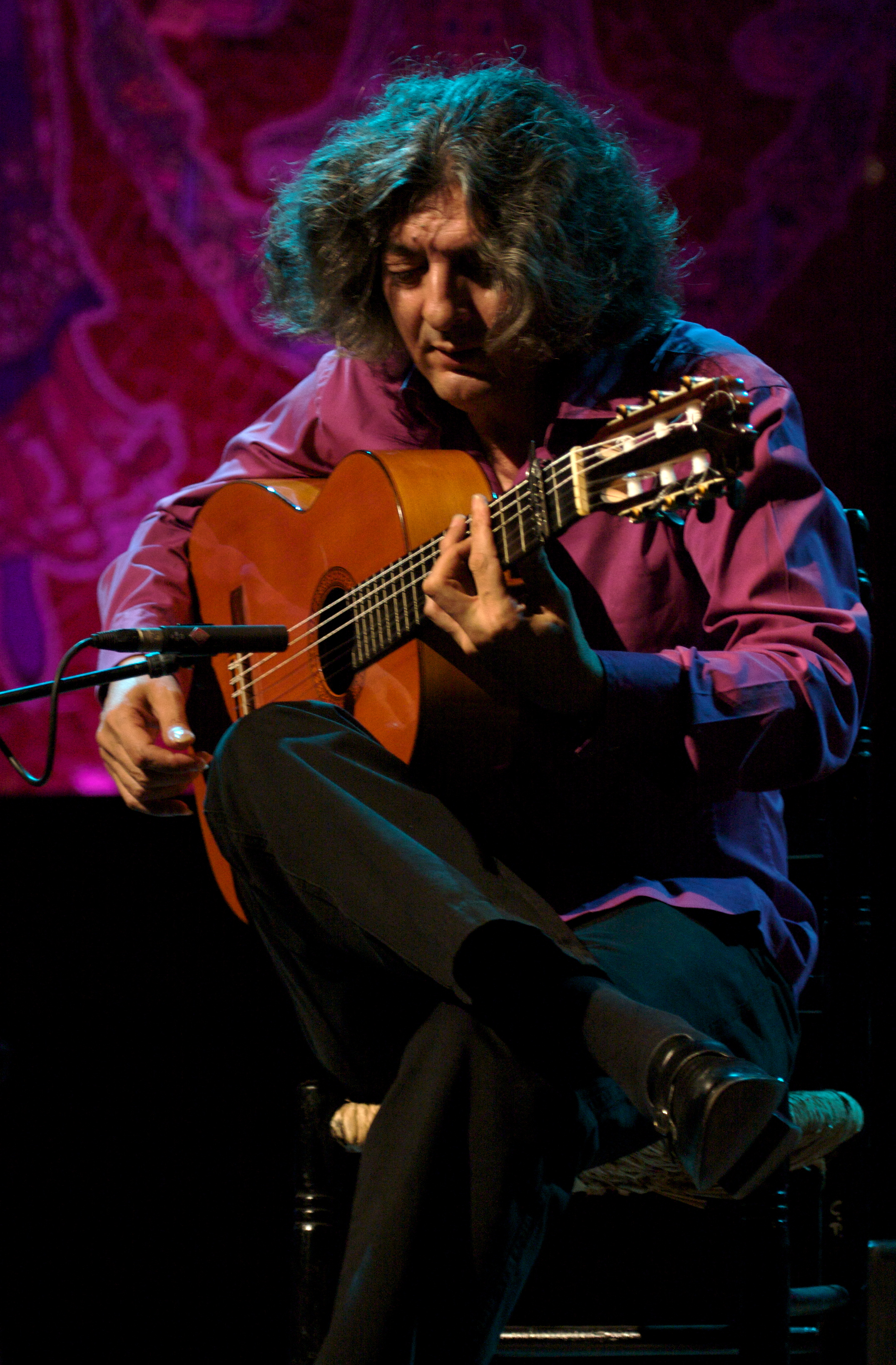 José Mercé's guitarist Moraíto Chico in concert within the Palace of the Catalan music, on April 26th, 2008